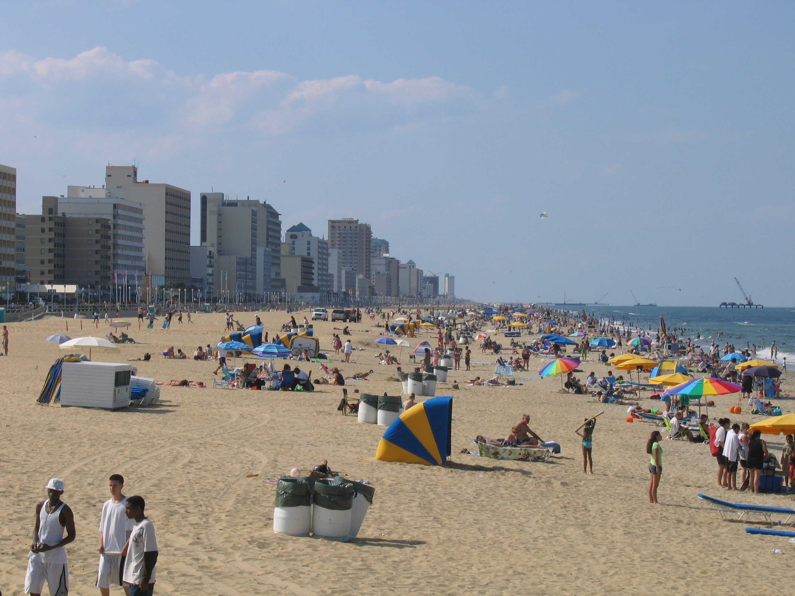 A view of the beach at Virginia Beach, VA from the fishing pier.